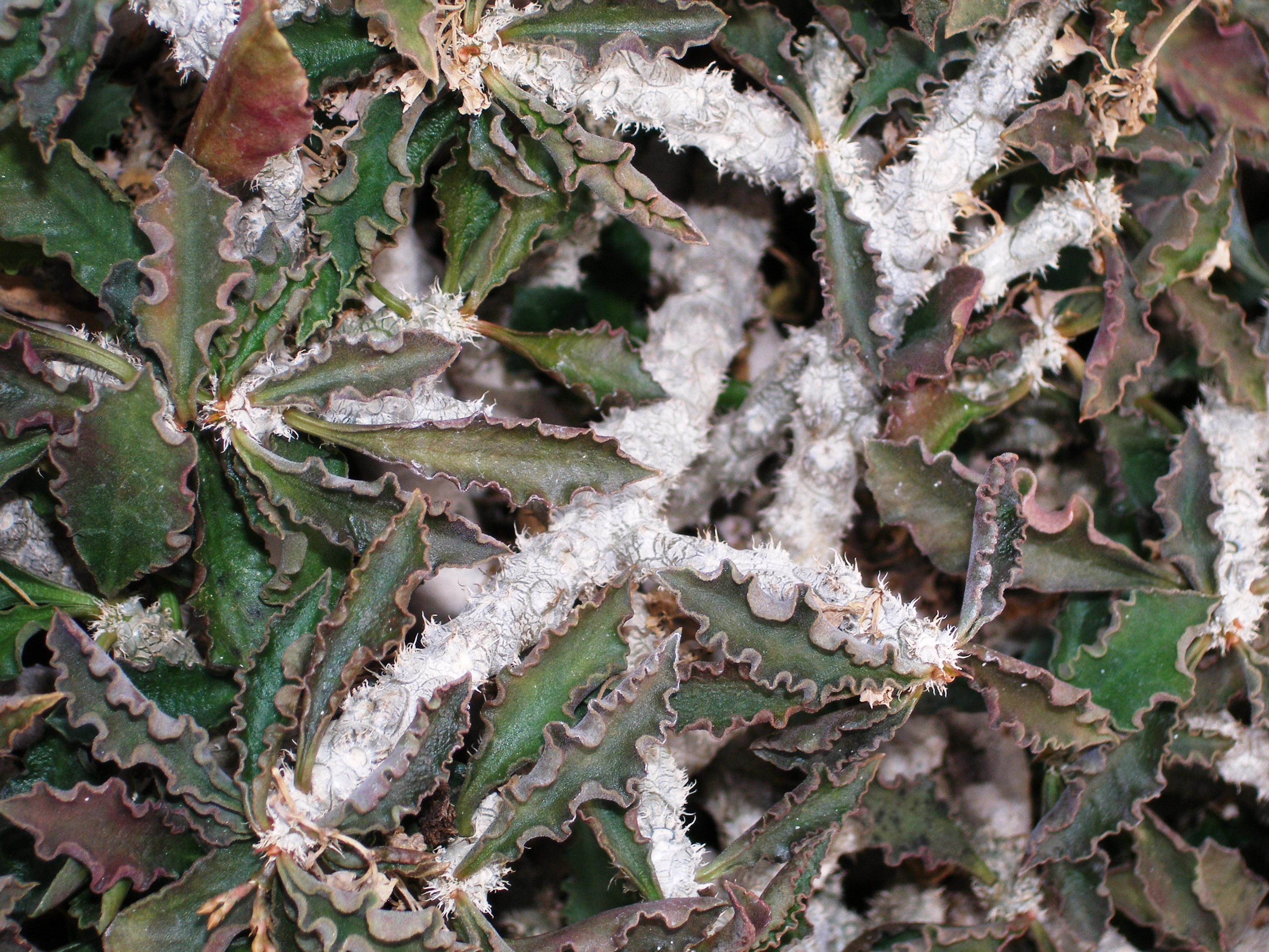 Specimen in cultivation at the Wilhelma Zoologisch-Botanische Garten, Stuttgart, Germany.